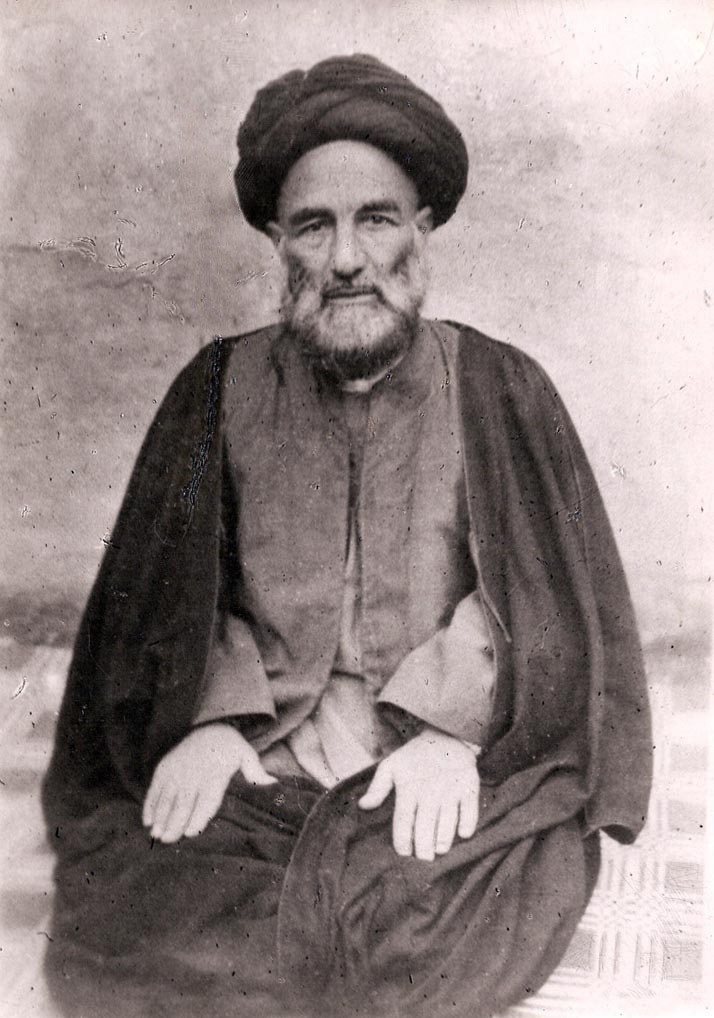 Ali Yasrebi Kashani (7585)